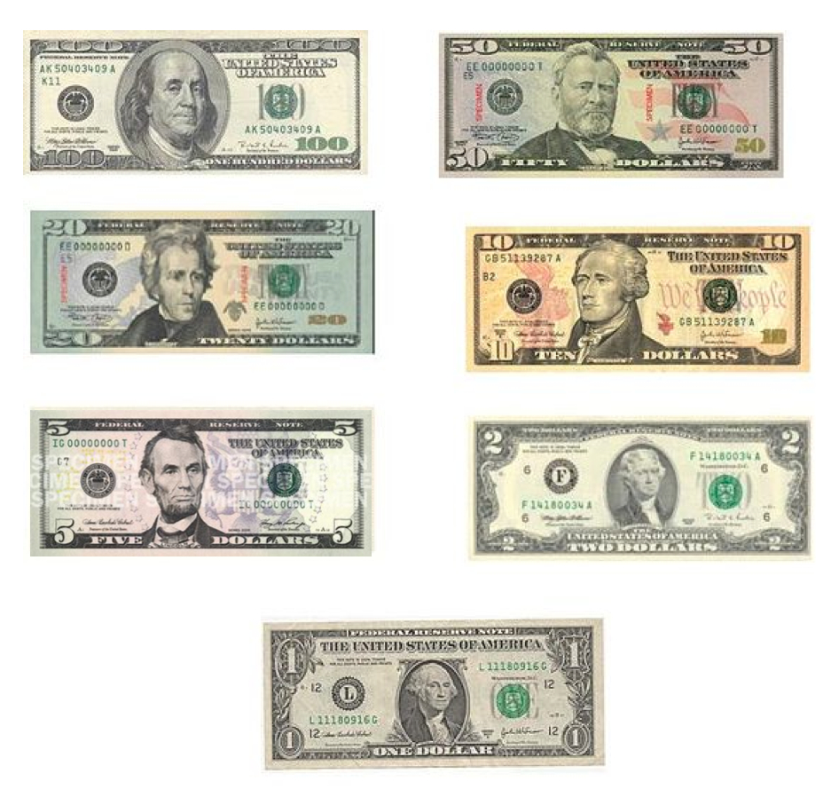 Includes new $5.